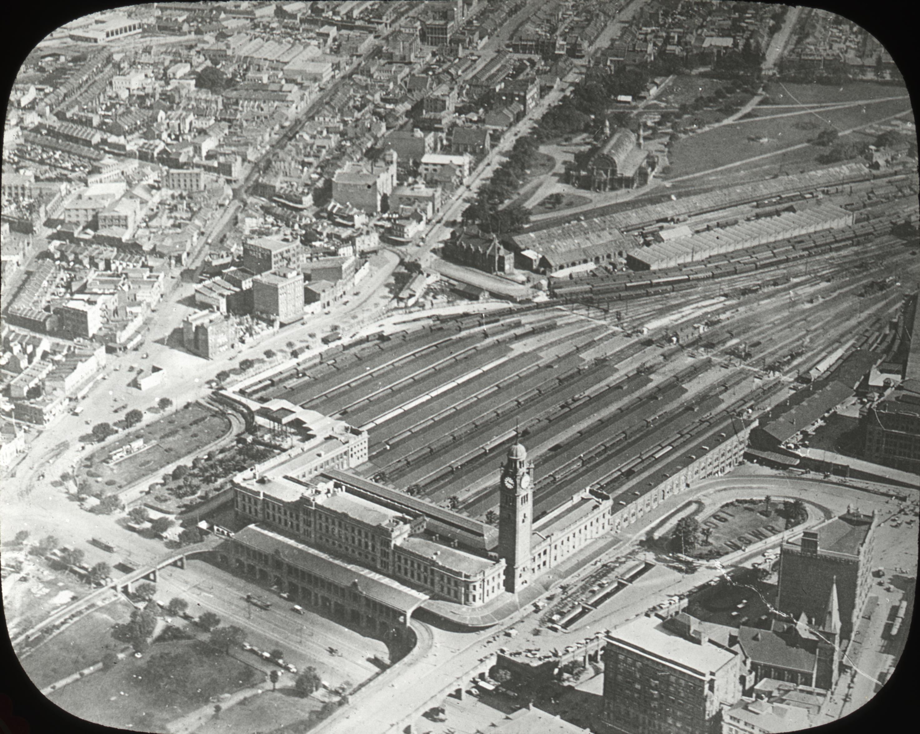 Original Collection: Visual Instruction Department Lantern Slides Item Number: P217:set 039 007 You can find this image by searching for the item number by clicking here. Want more? You can find more digital resources online. We're happy for you to share this digital image within the spirit of The Commons; however, certain restrictions on high quality reproductions of the original physical version may apply. To read more about what “no known restrictions” means, please visit the Special Collections & Archives website, or contact staff at the OSU Special Collections & Archives Research Center for details.